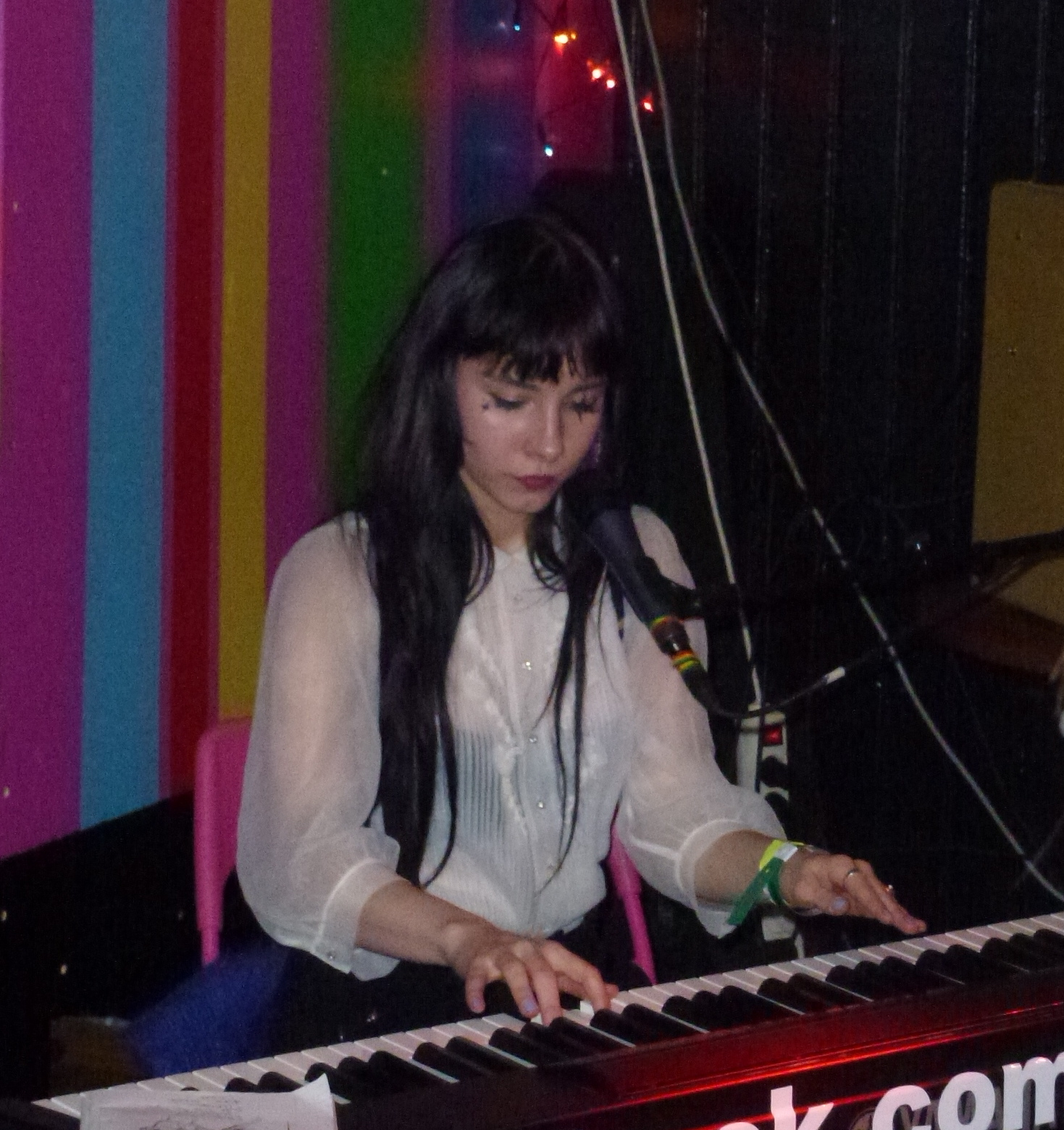 Iiris Vesik perfoming at Iceland Airwaves 2011.